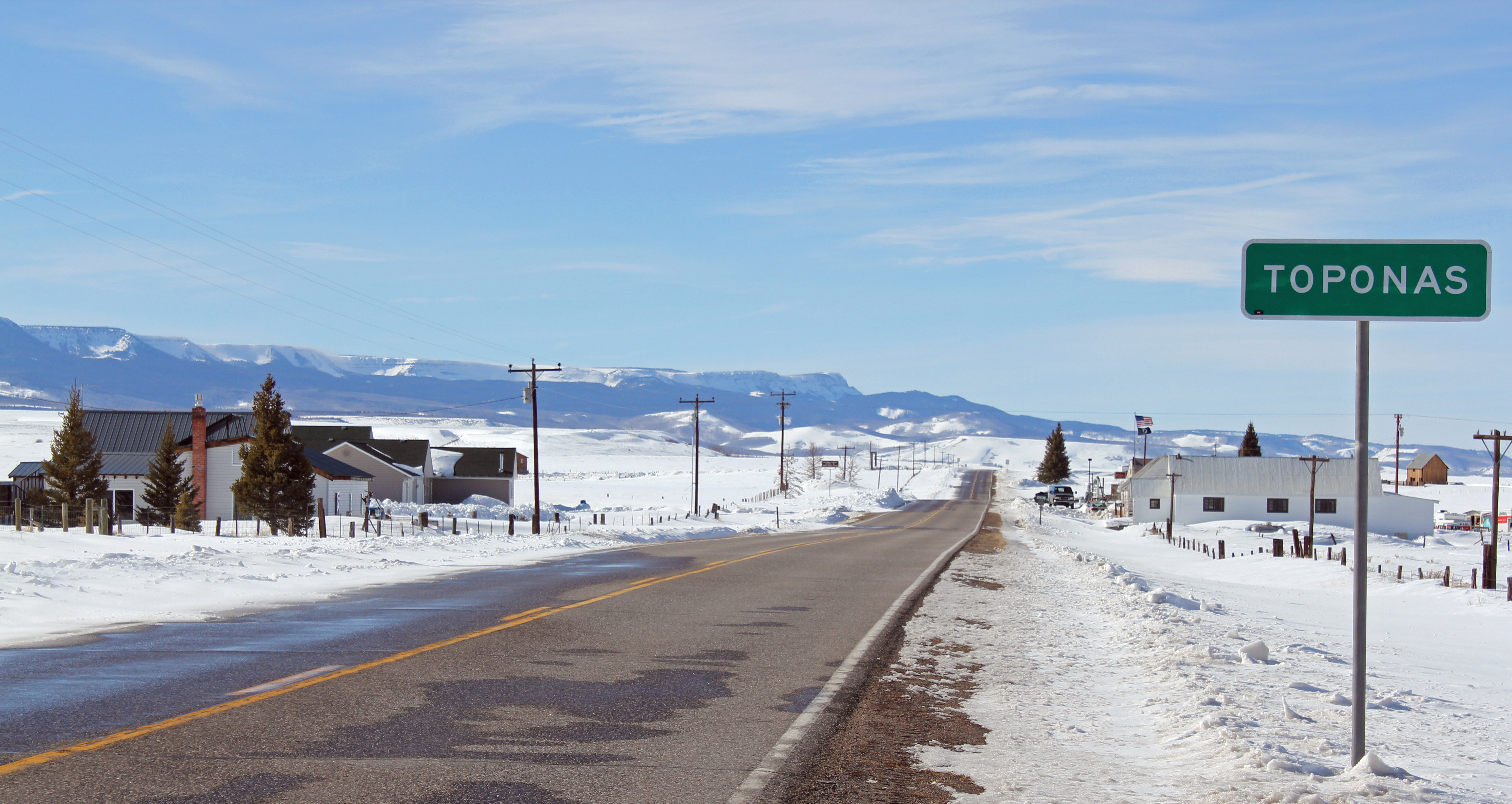 The town of Toponas, Routt County, Colorado.